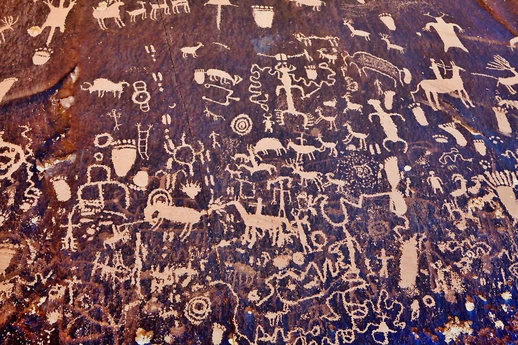 Petroglyphs, Newspaper Rock, Utah, USA129_newspaperRock.jpg